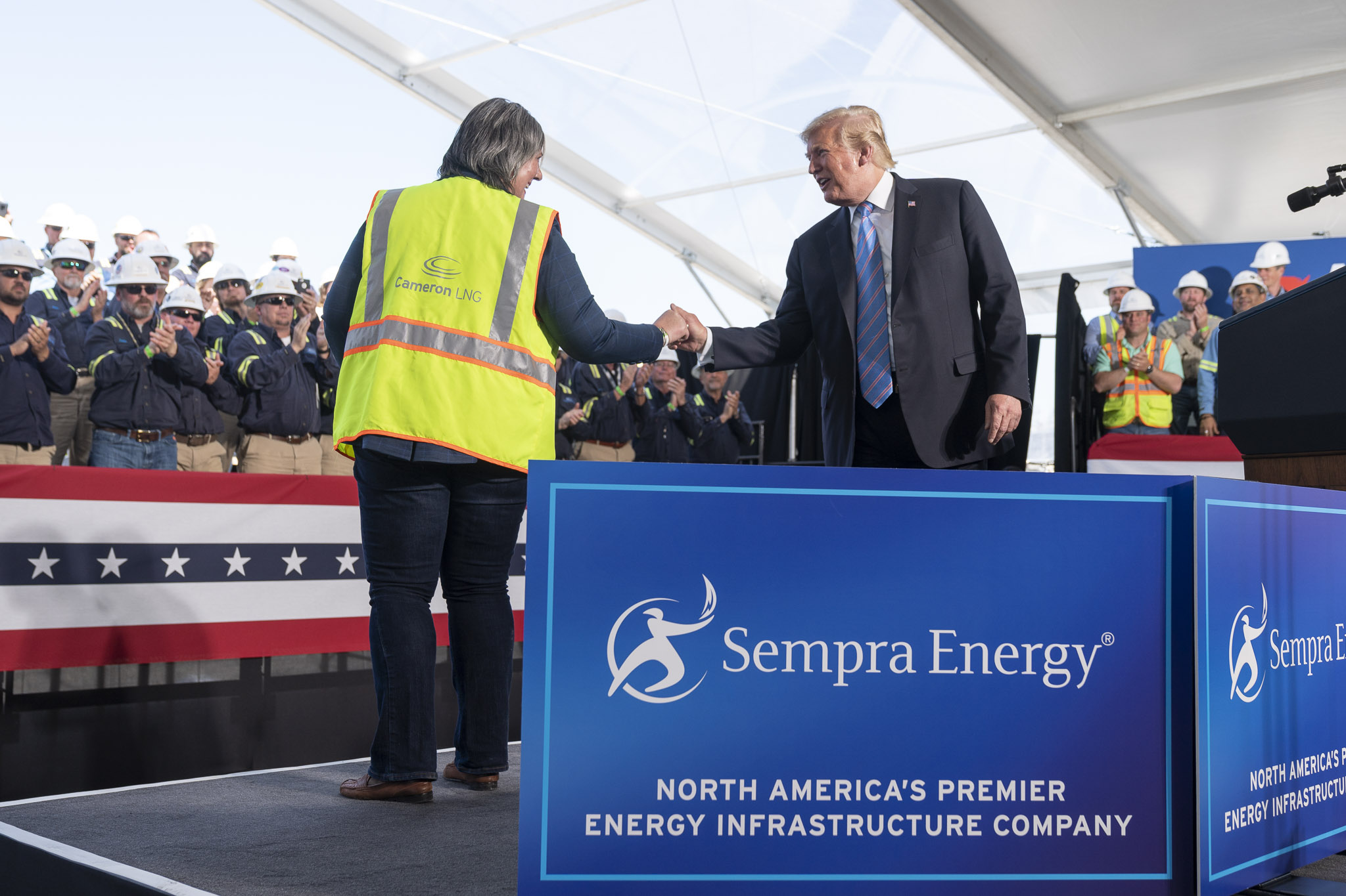 President Donald J. Trump delivers remarks on promoting energy infrastructure and economic growth Tuesday, May 14, 2019, at the Cameron LNG Export Terminal in Hackberry, La. (Official White House Photo by Shealah Craighead)